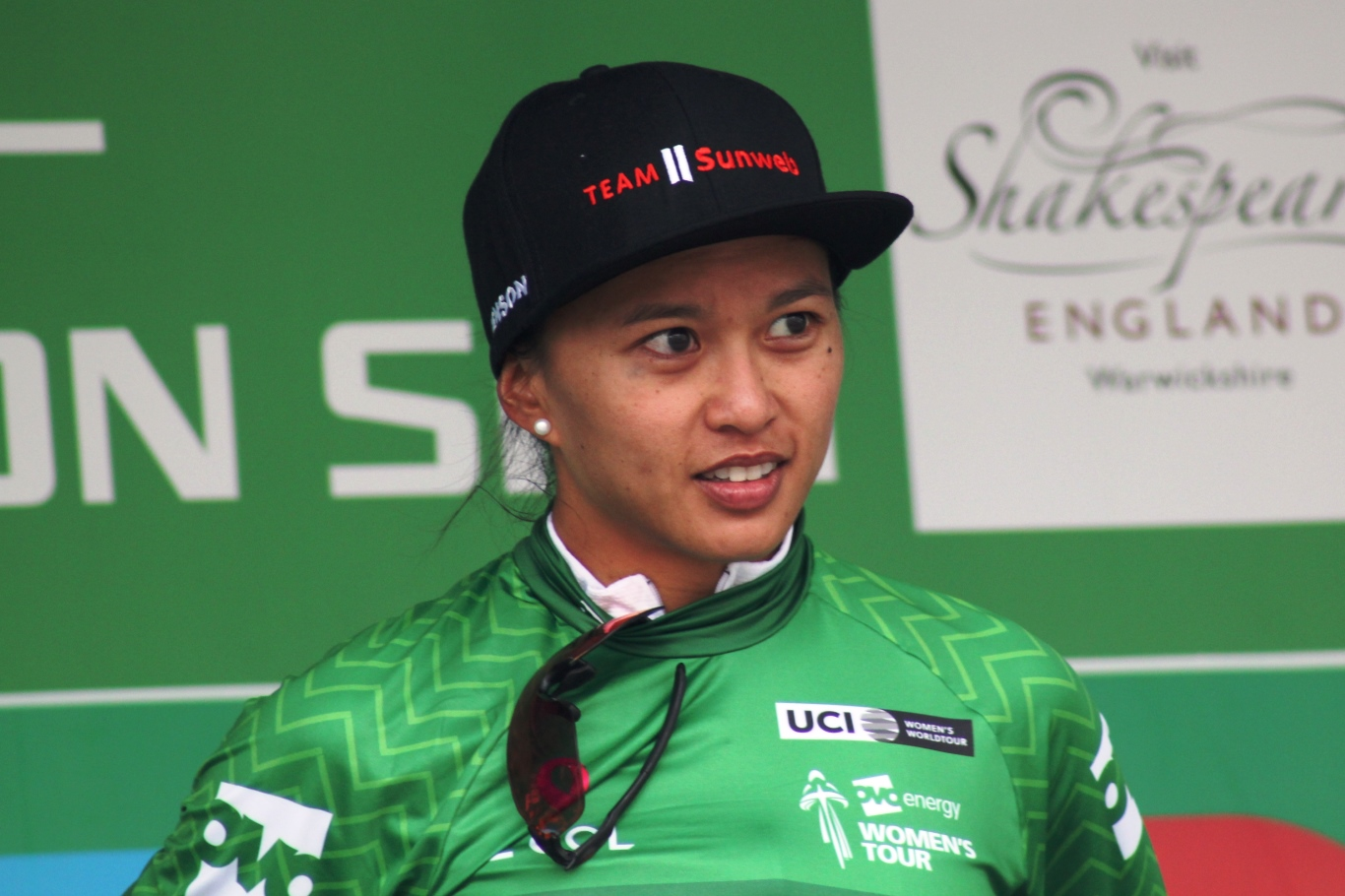 Coryn Rivera, winner of the 2018 Women's Tour, on the podium at Royal Leamington Spa at the end of stage 3.